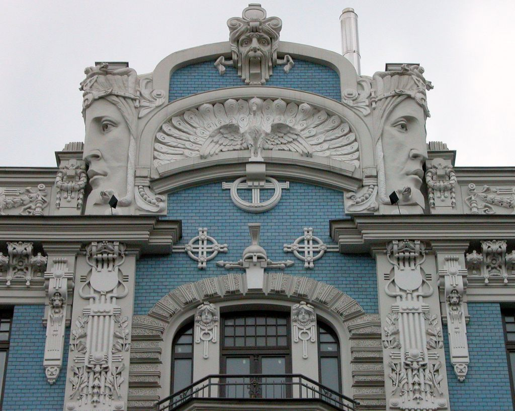 Building at Elizabetes Iela 10b, architect Mikhail Eisenstein